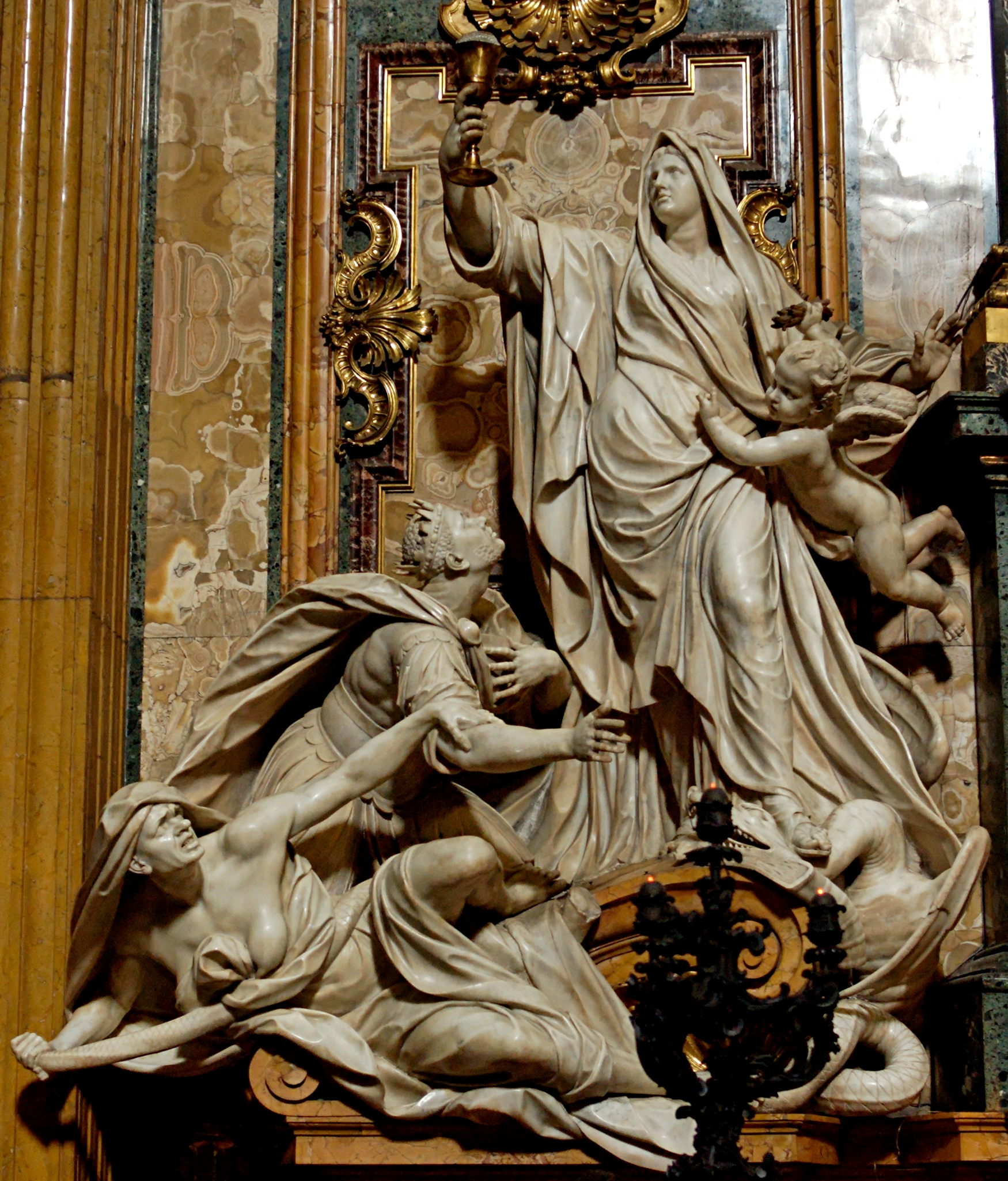 Triumph of Faith over Idolatry, by Jean-Baptiste Théodon (French, 1646–1713). Church of the Gesù, Rome, Italy.